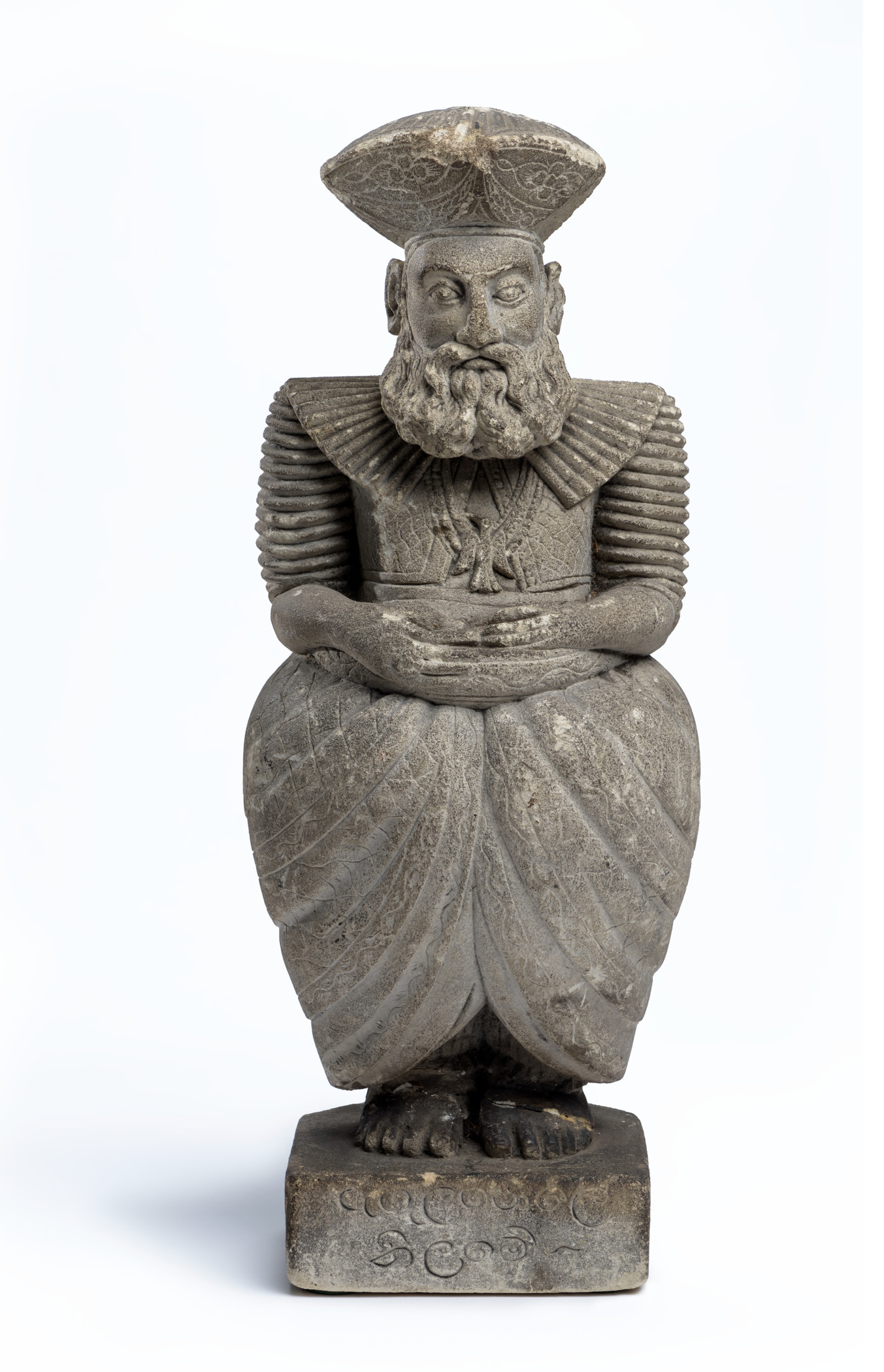 Photograph of 1st Adigar, Ehelepola.